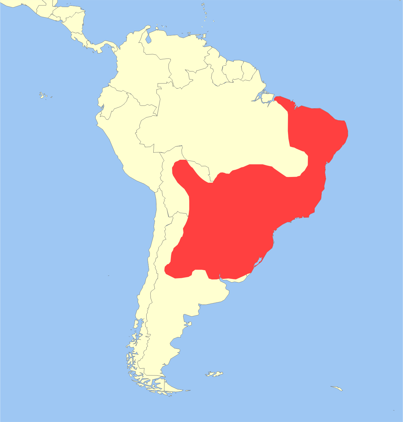 Geographic Distribution of Brown Brocket (Mazama gouazoubira).